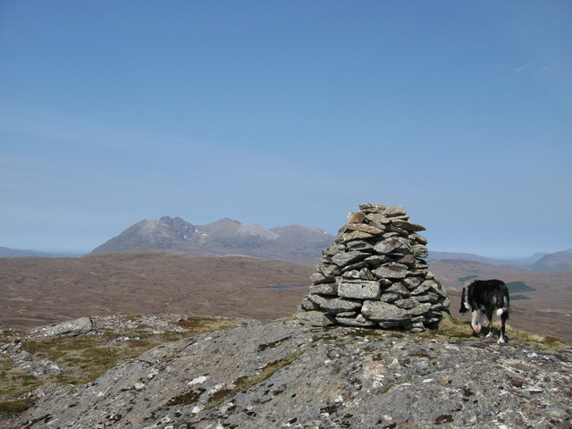 Summit Cairn of Meall an t-Sidhe